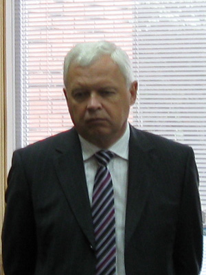 Yuri Aleksandrovich Chaplygin, Rector of National Research University of Electronic Technology (MIET), corresponding member of Russian Academy of Sciences